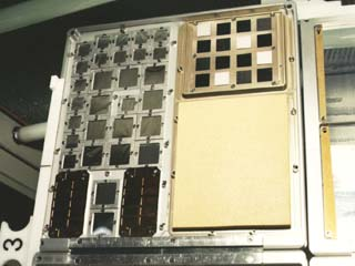 one panel of the MSRE experiment prior to launch.